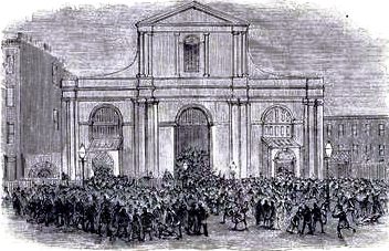 Original St Francis Xavier Church, Sixteenth Street, Manhattan, on March 8, 1877, the evening of a fatal panic